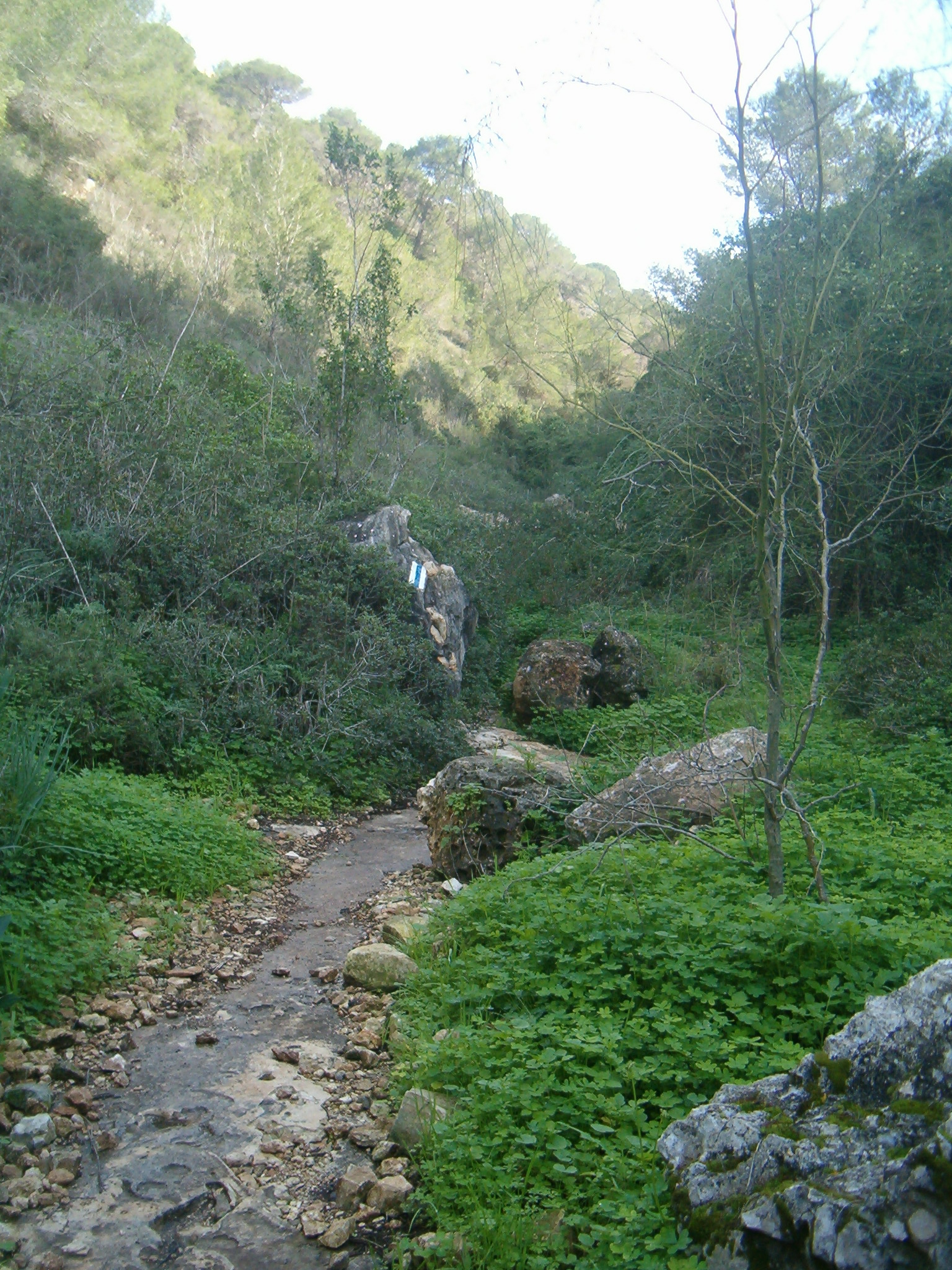 The green trail in Wadi Lotem, Haifa. The Path starts in the neighborhood of Sprinzak near the sea and follows the wadi up to Gan Haem in Central Carmel. The City is above on both sides of the wadi even though it can not be seen. Go to for more information about wildlife and hiking in the Haifa area. Picture taken by Diana Barshaw 14 December 2008